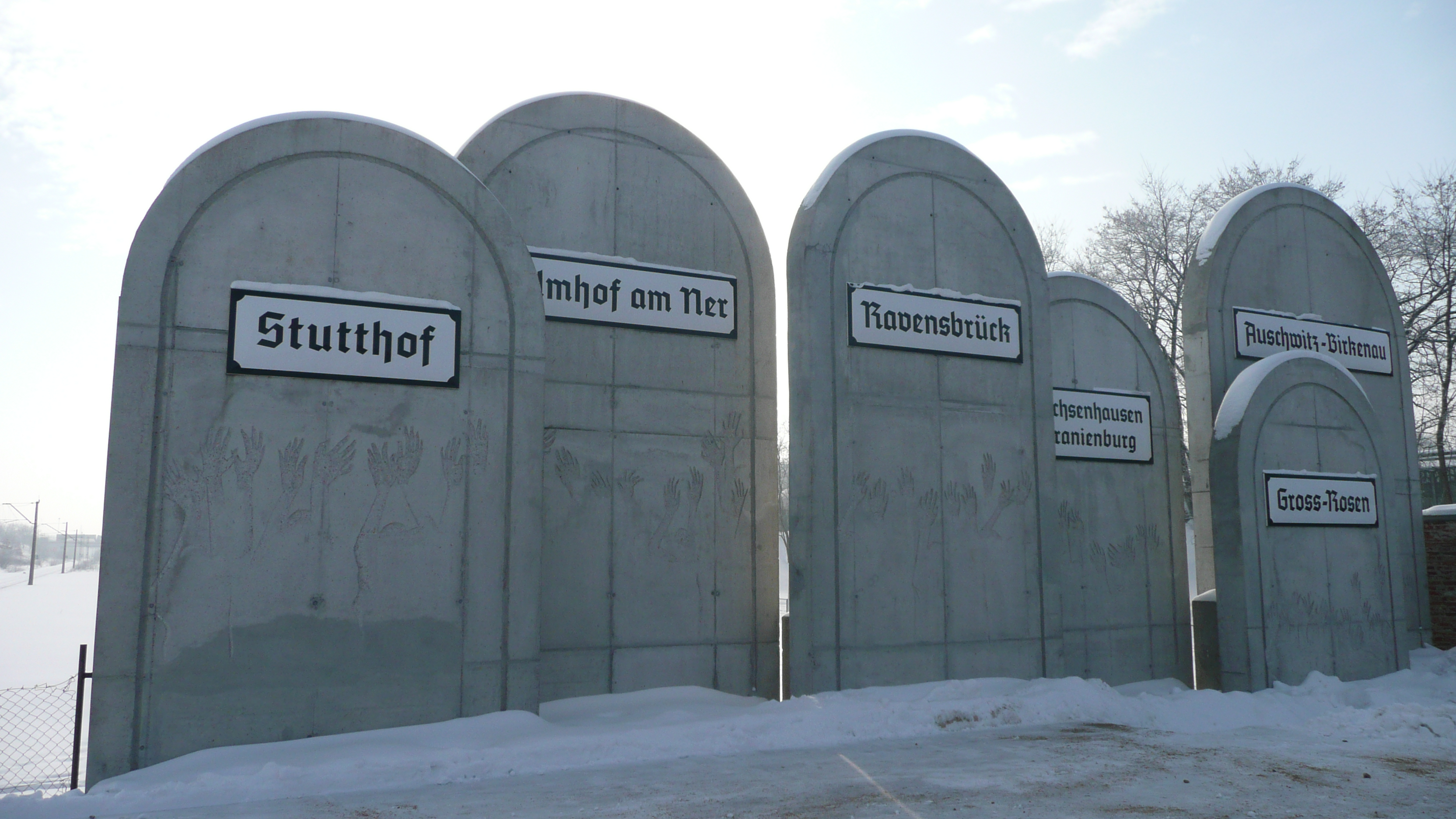 Radegast memorial in Lodz, Poland. Radegast was place where Jews were gathered for deportation to the German Nazi death camps.